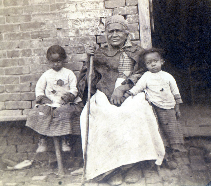 A former slave of U.S. President Andrew Jackson (probably Betty Jackson) and two of her great-grandchildren